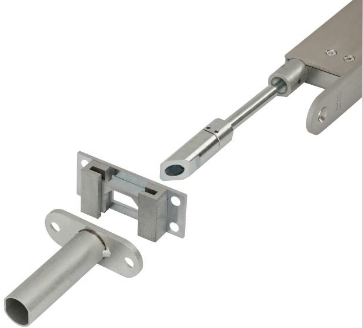 Passive leaf lock